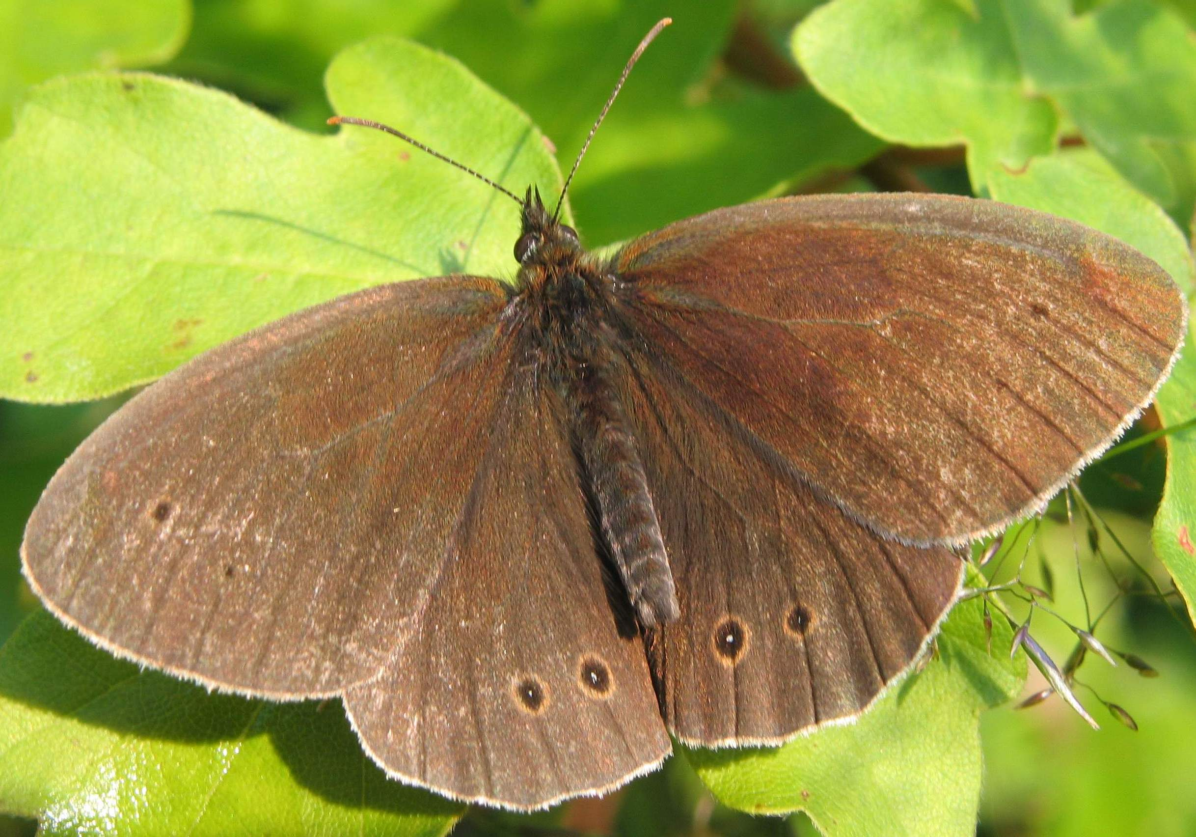 Author: soebe Date: July 09, 2005 Location: Kropp, Northern Germany